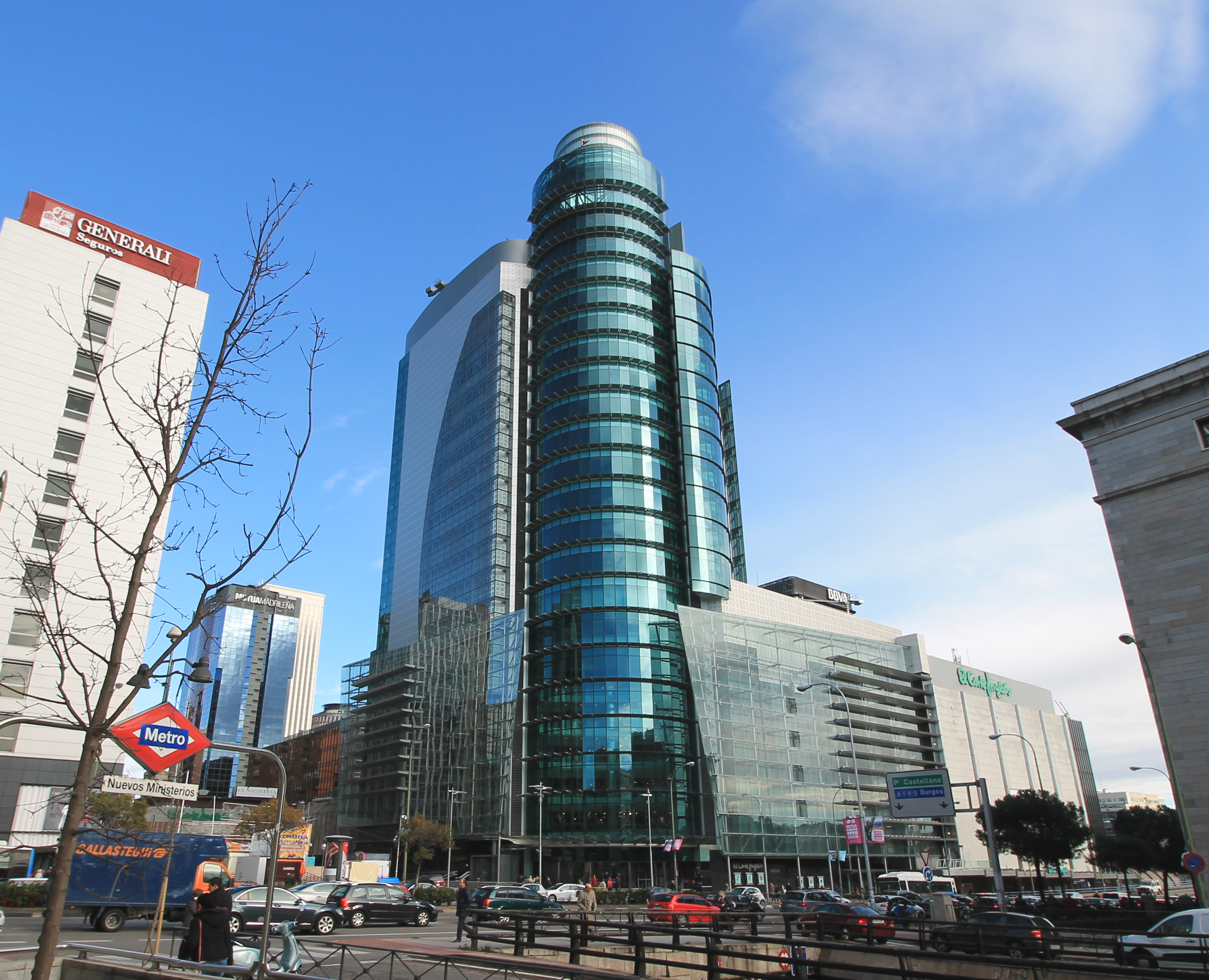 Façade of Torre Titania in Madrid (Spain).